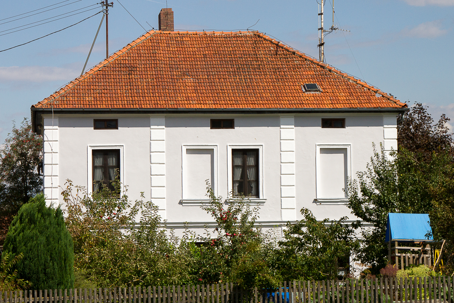 This is a photograph of an architectural monument.